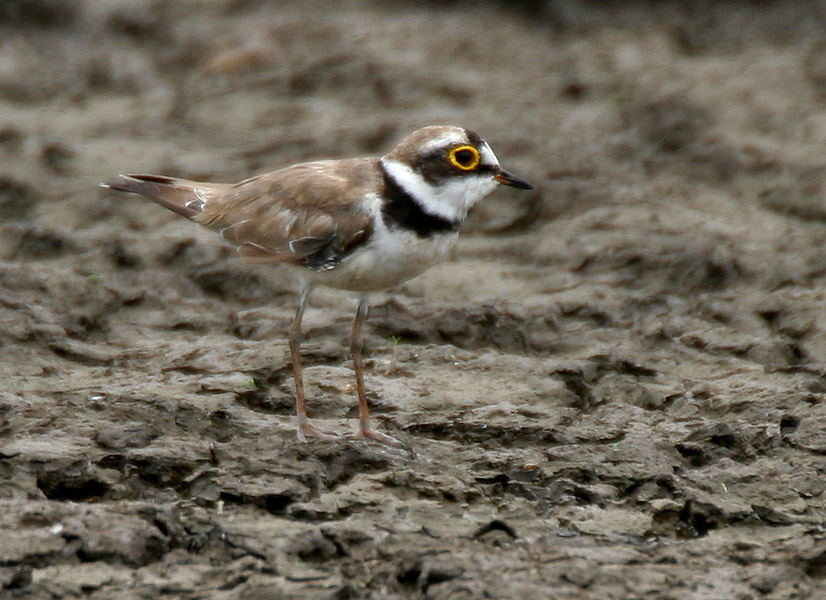 Little Ringed Plover Charadrius dubius - Hindi: Zirrea, Merwa, Kash: Kola katij, Pun: Marwa, Ben: Jira, Guj: Vilayati jini titodi, Mar: Katheri chilkha, Ta: Mani mandai ullan, Chinna kottan, Te: Bytu ulanka, Rewa, Mal: Motira kozhi, Attumanal kozhi, Kantavali nani dhongili, Kan: Kari patte plover, Sinh: Punchi oleyiya- at Pocharam lake, Andhra Pradesh, India.